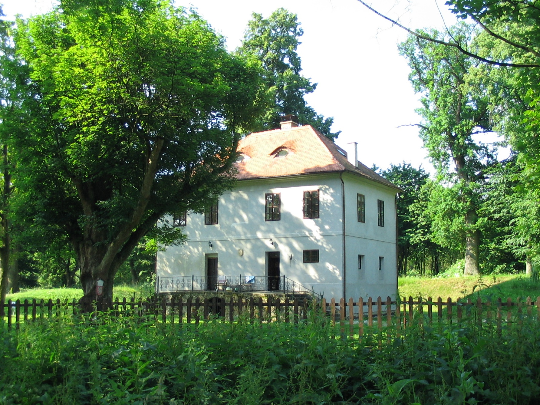 Hvížďalka stronghold in Kalenice, Strakonice District, Czech Republic